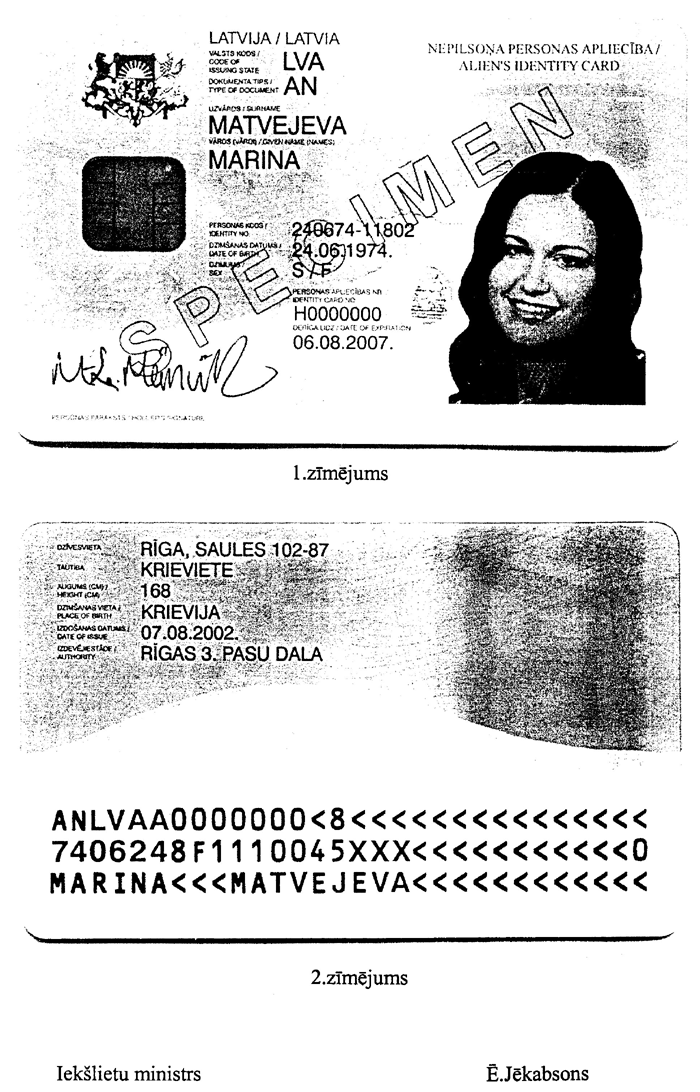 Government-provided "Alien's Identity Card" sample